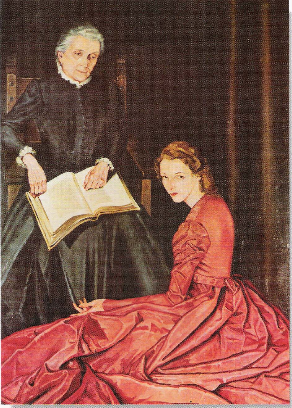 oil on Canvas, 1st place at the II Salon Nacional de artistas Colombianos, Interludio, Wife and mother of SMD